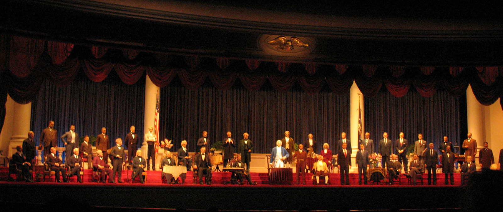 The Hall of Presidents attraction at Disney's Magic Kingdom Taken April 2007